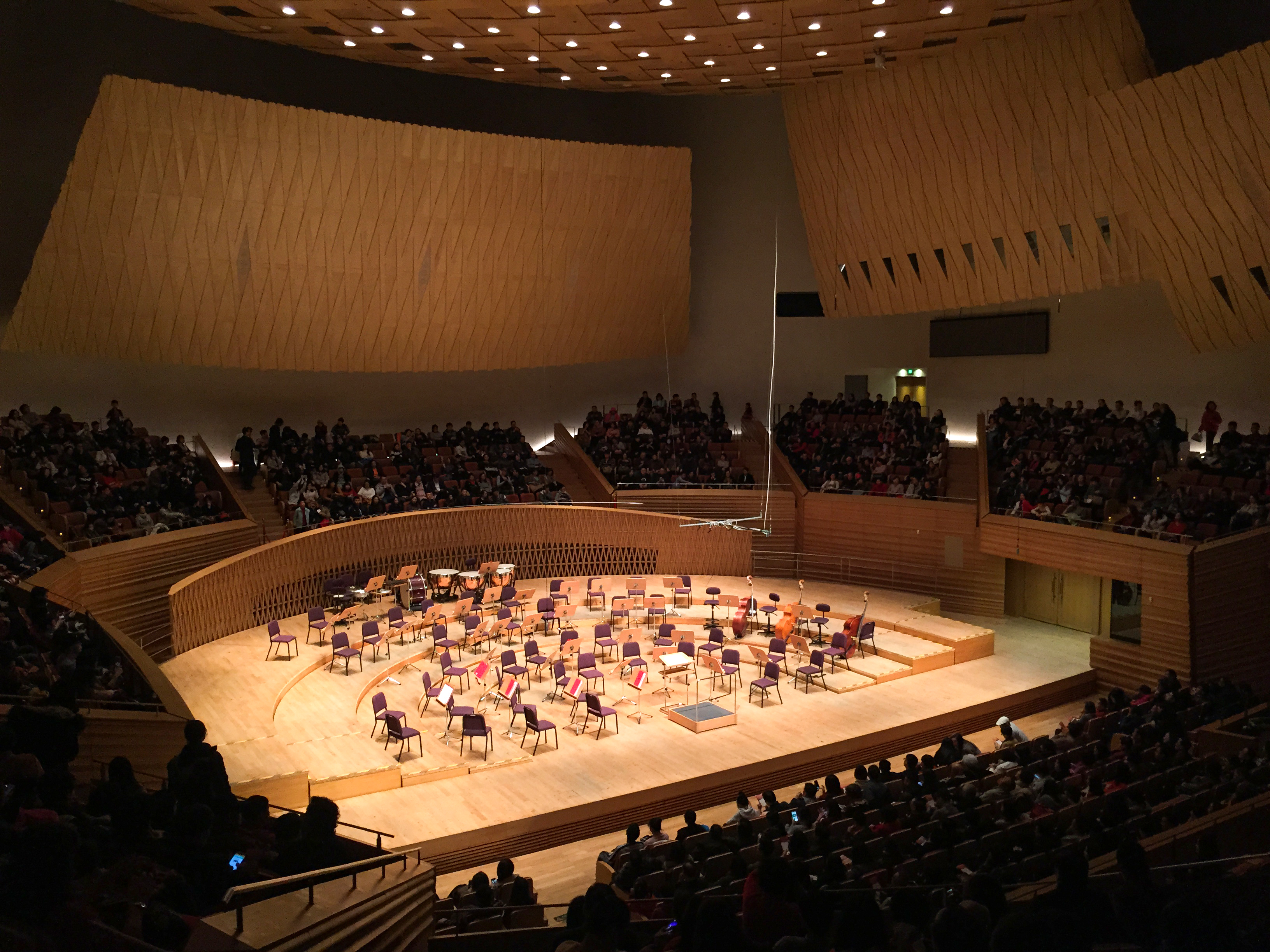 Meanwhile, the (in)famous sliding incident happened at Fragrant Hills...